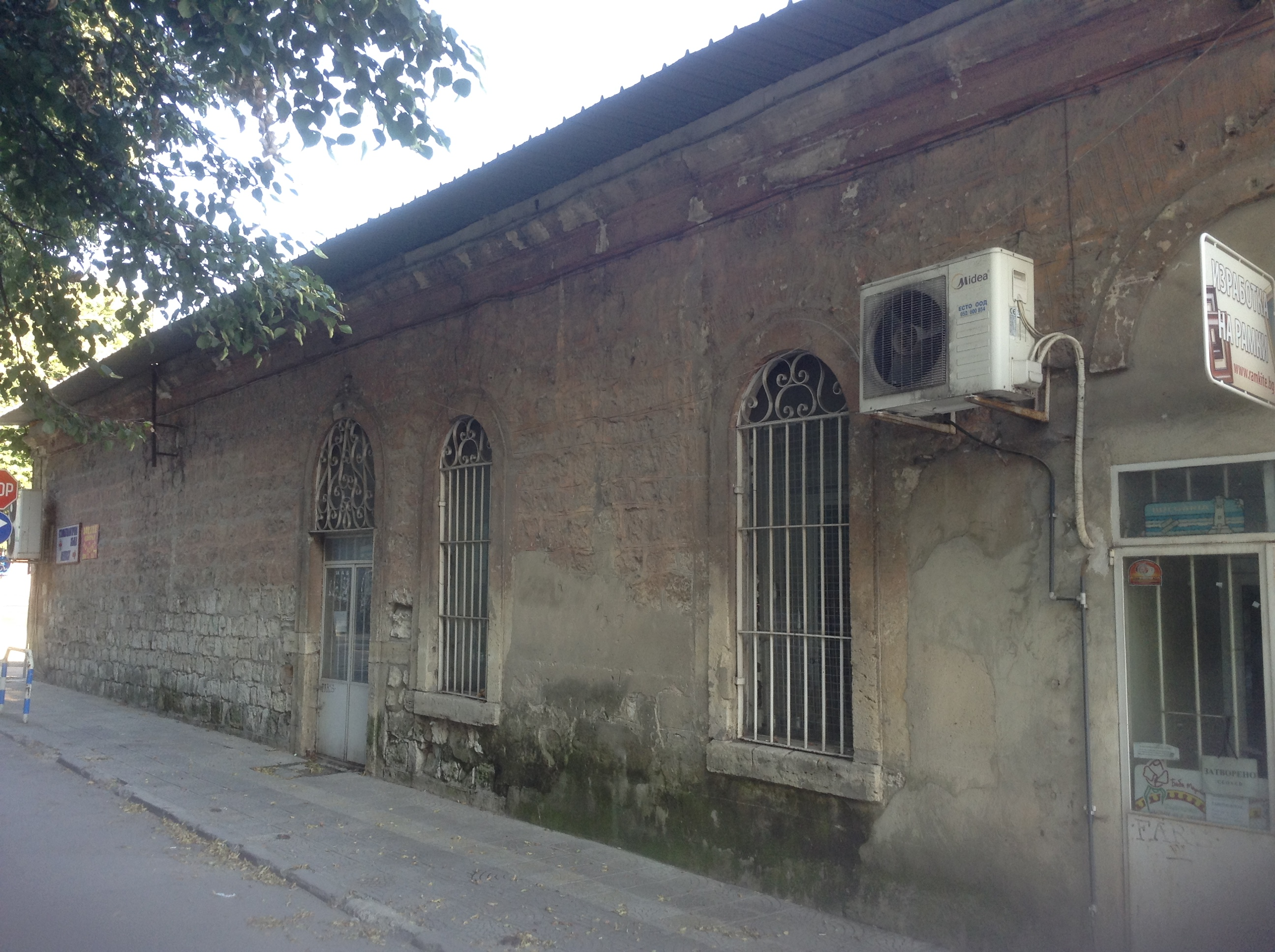 Late XIX cent commercial building in Varna, that was built by the Sivrioglu merchant brothers.